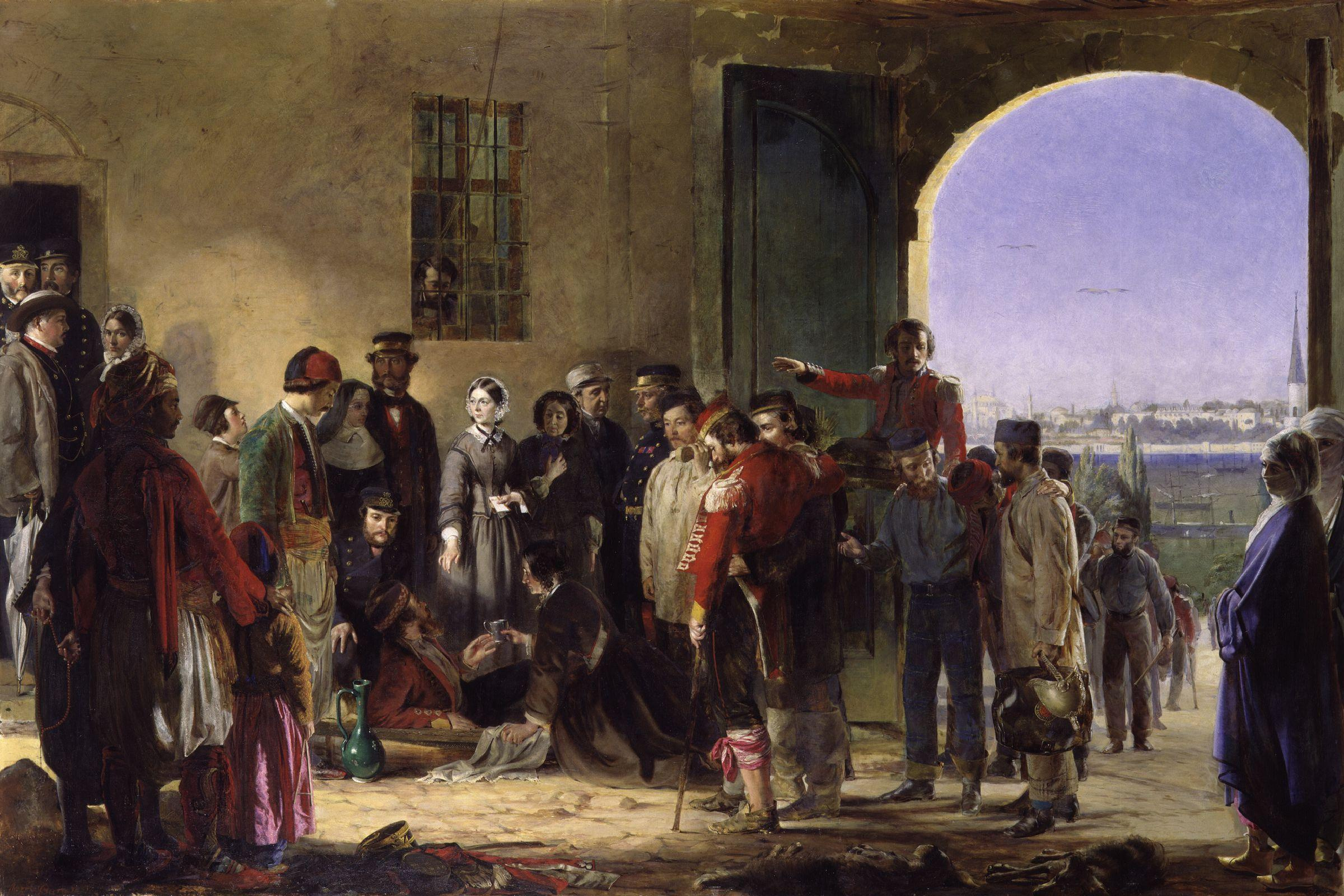 Nightingale receiving the Wounded at Scutari, by Jerry Barrett (died 1906). All images in this batch have been confirmed as author died before 1939 according to the official death date listed by the NPG.